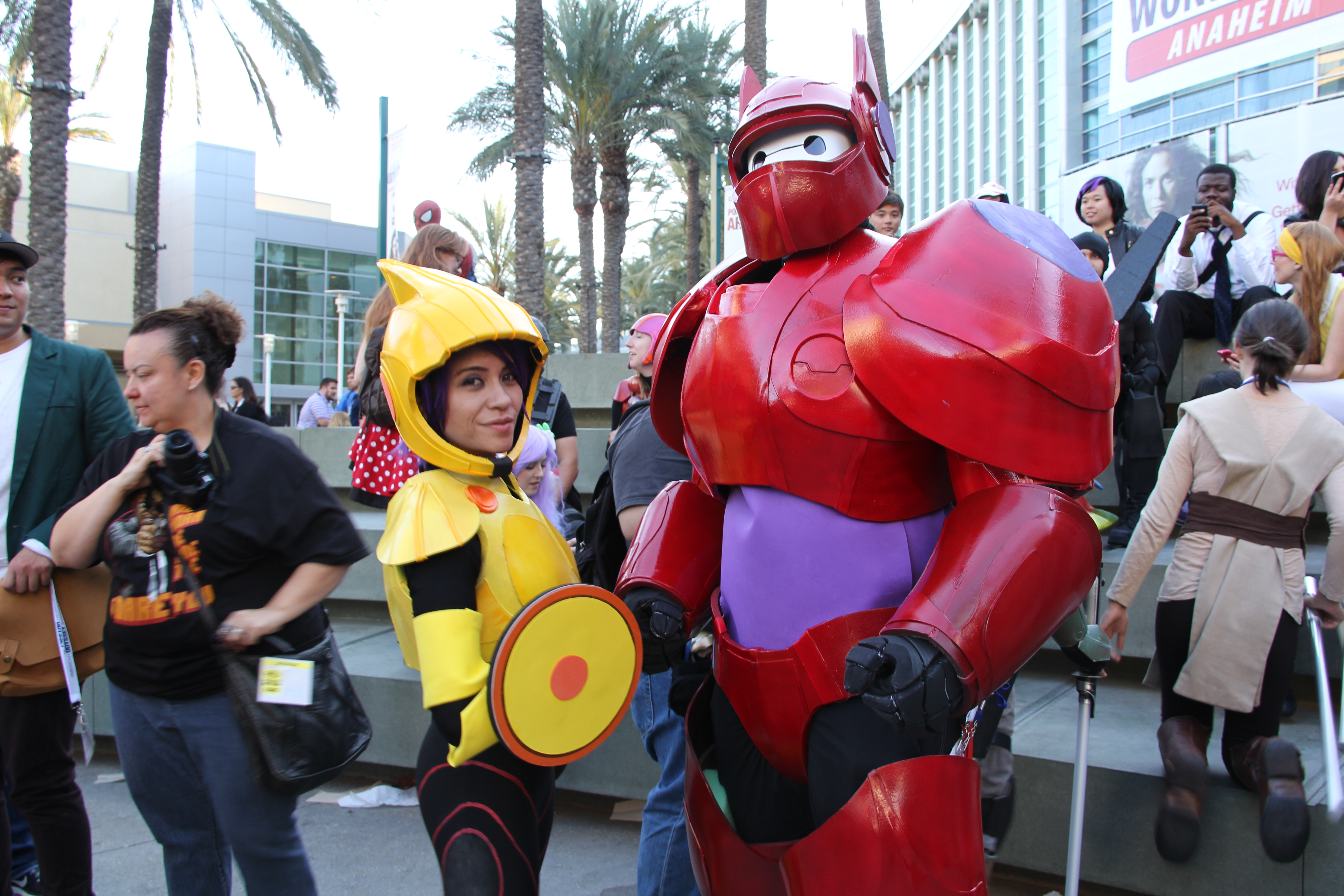 A cosplay of GoGo [left] and Baymax [right] from Big Hero 6